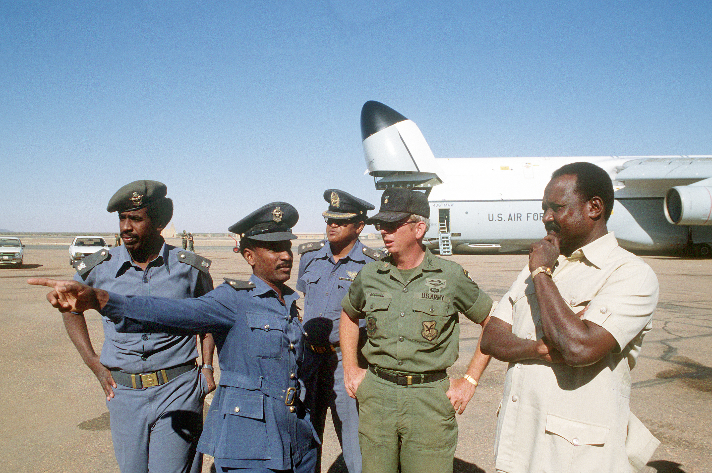 SEIDNA AIR BASE, Sudanese President Gaafar Nimeiry visits the military camp established for exercise Bright Star '82